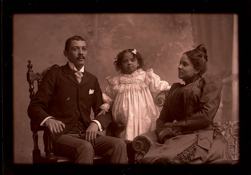 Catherine Bosley Allen Latimer (1896-1948) (center) and her parents "Henry W. Allen (1870-1903) was a Fisk University graduate and worked as a railway mail clerk. He was killed in a train accident near Morris, Ala., on December 23, 1903. He married Minta G. Bosley (1875-1949) in 1894."